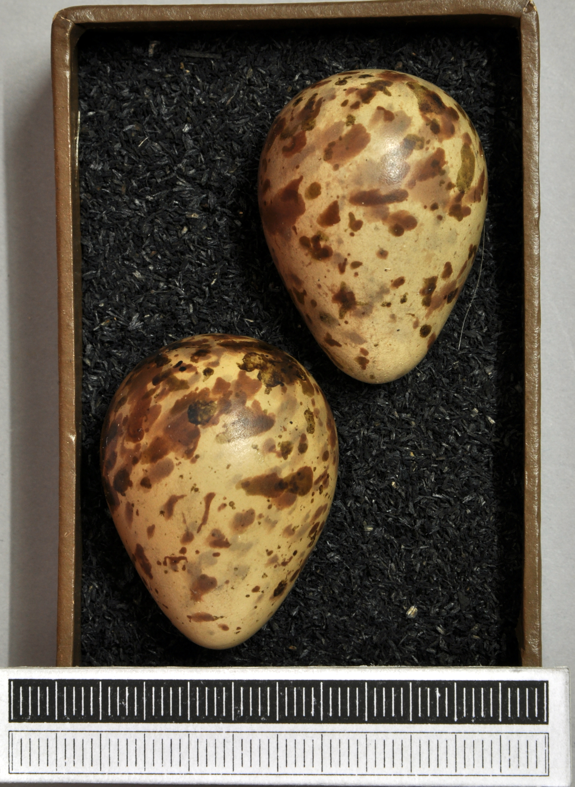 Purple sandpiper Calidris maritima , egg, Coll. Museum Wiesbaden